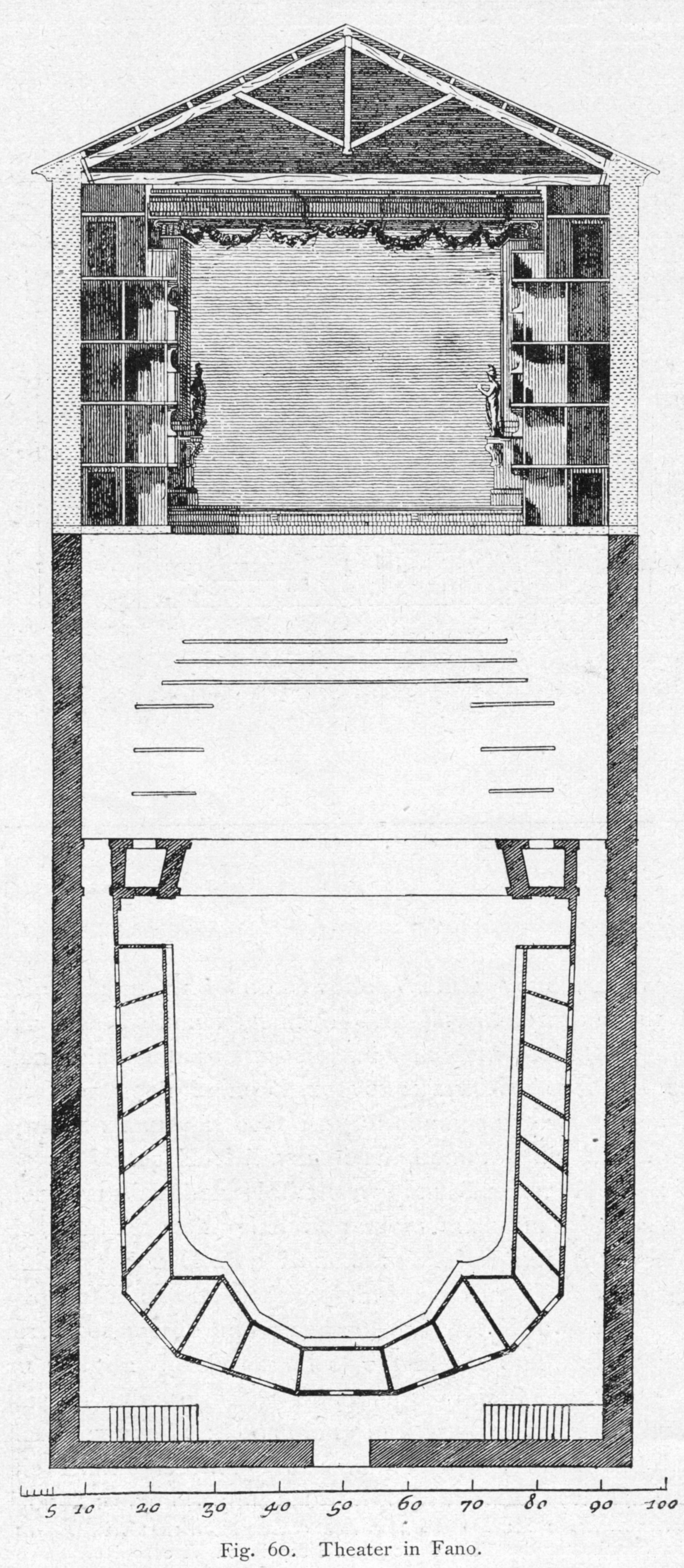 Elevation and floor plan of the Teatro di Fano, designed by the Italian architect Giacomo Torelli and inaugurated in 1662